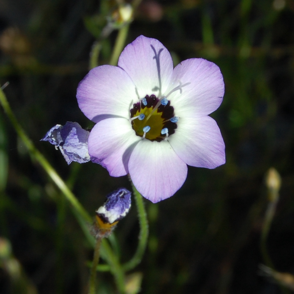 Bird's-eye Gilia. Gilia tricolor. Made in Almaden Quicksilver County Park, San Jose, California, USA. Identified with help of